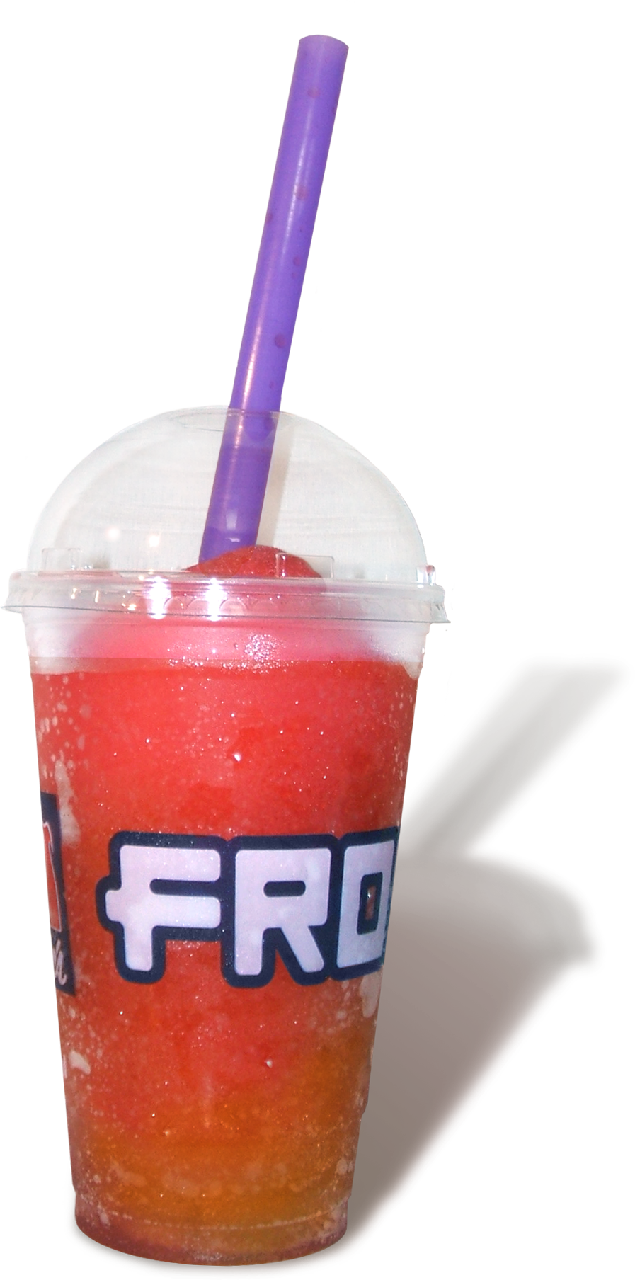 A photograph of a Froster cup from Mac's. It was a mixture of Watermelon and something that claimed to be Orange Crush, but looked a lot more brownish yellow that it's supposed to. Yes, I did drink this after I photoshopped it. It had partially melted and was condensing on a book my friend gave to me. I should probably return that novel... hmmm